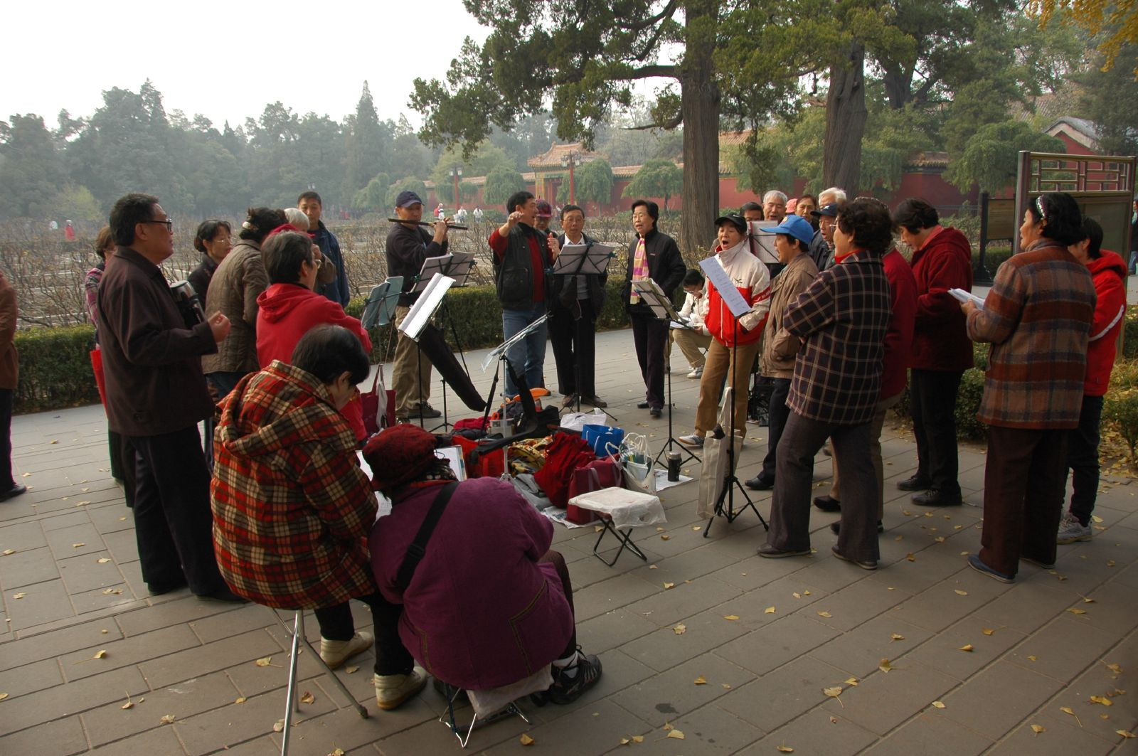 Elderly people doing cultural activities in the Jingshan Park in Beijing